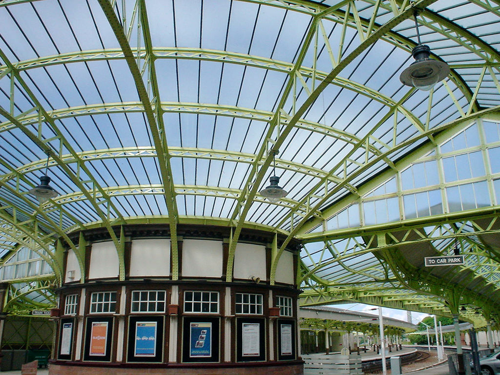 Wemyss Bay railway station Photograph by wilm, from Flickr.